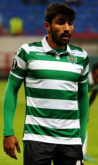 Ricardo Esgaio